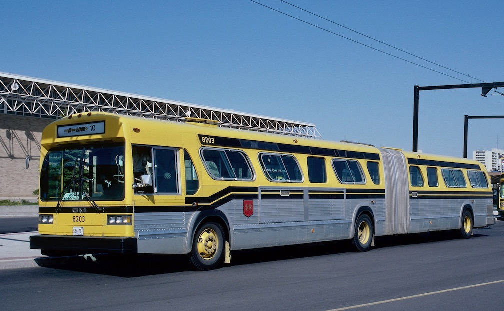 Hamilton Street Railway bus 8203 at Eastgate Square mall in 1987, on route 10 (B-Line). No. 8203 was a rare GM New Look articulated bus (model TA60-102N), a model which had a "New Look" body but with a "Classic" front end (unlike all non-articulated New Look buses). It was one of just six built by General Motors Diesel Division for Hamilton in 1982 (but HSR acquired another 9 secondhand in 1987) and one of only 53 total built of this model. Hamilton Street Railway's transit centre at Eastgate Square was relocated about 20 years later, in the late 2000s, and buses no longer pass this exact location.